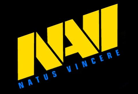 Logo of the Team Natus Vincere